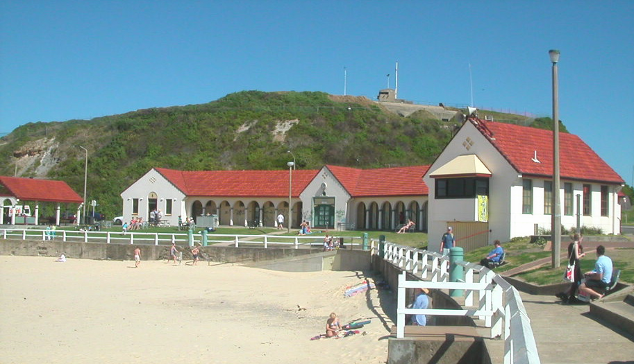 Fort Scratchley viewed from Nobbys Beach with surf club house in foreground.